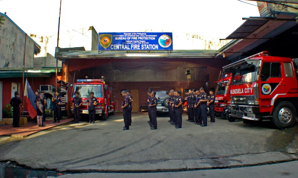 Valenzuela City Central Fire Station and its personnel.